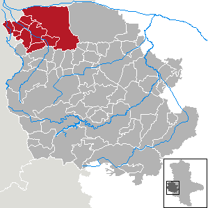 VG Osterwieck-Fallstein in Saxony-Anhalt - District Harz